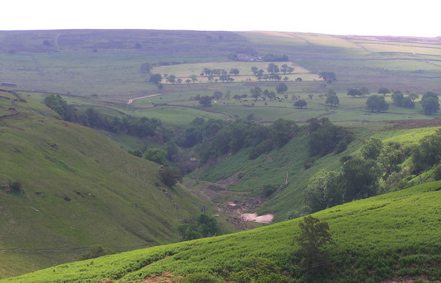 The former Pryes Lead Mine at Shaw Beck, by Washfold, North Yorkshire